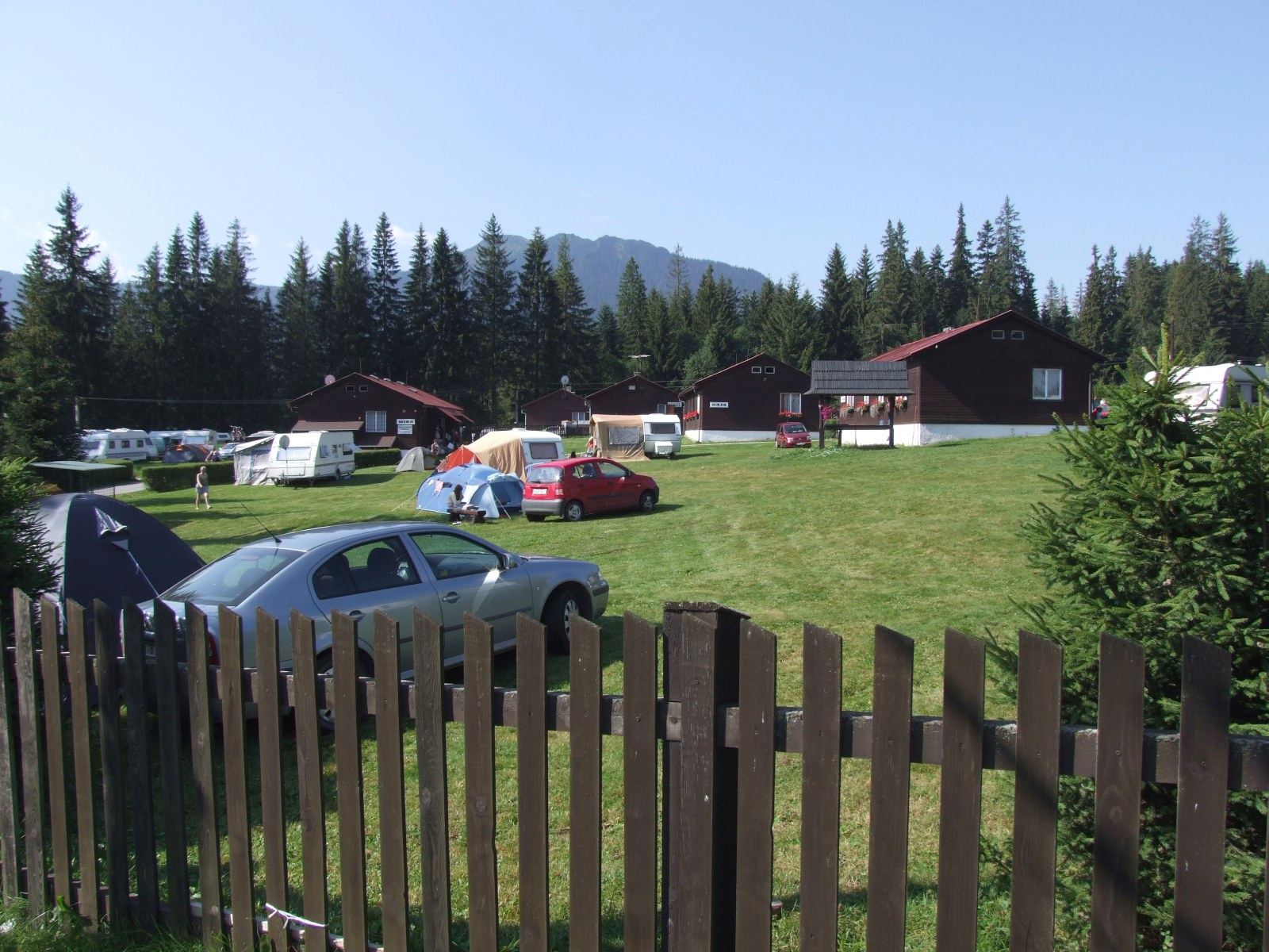 Autocamping Oravice